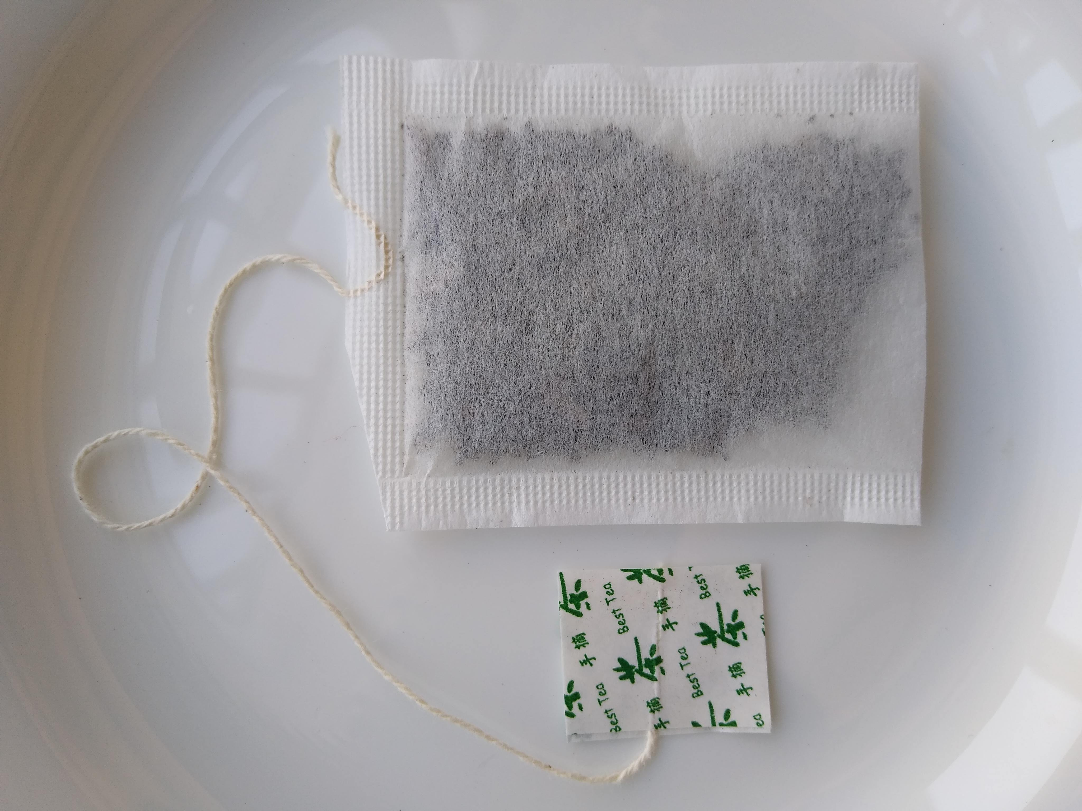 Alishan tea (gaoshan tea) from Taiwan, bought in Danshui (Tamsui 淡水).